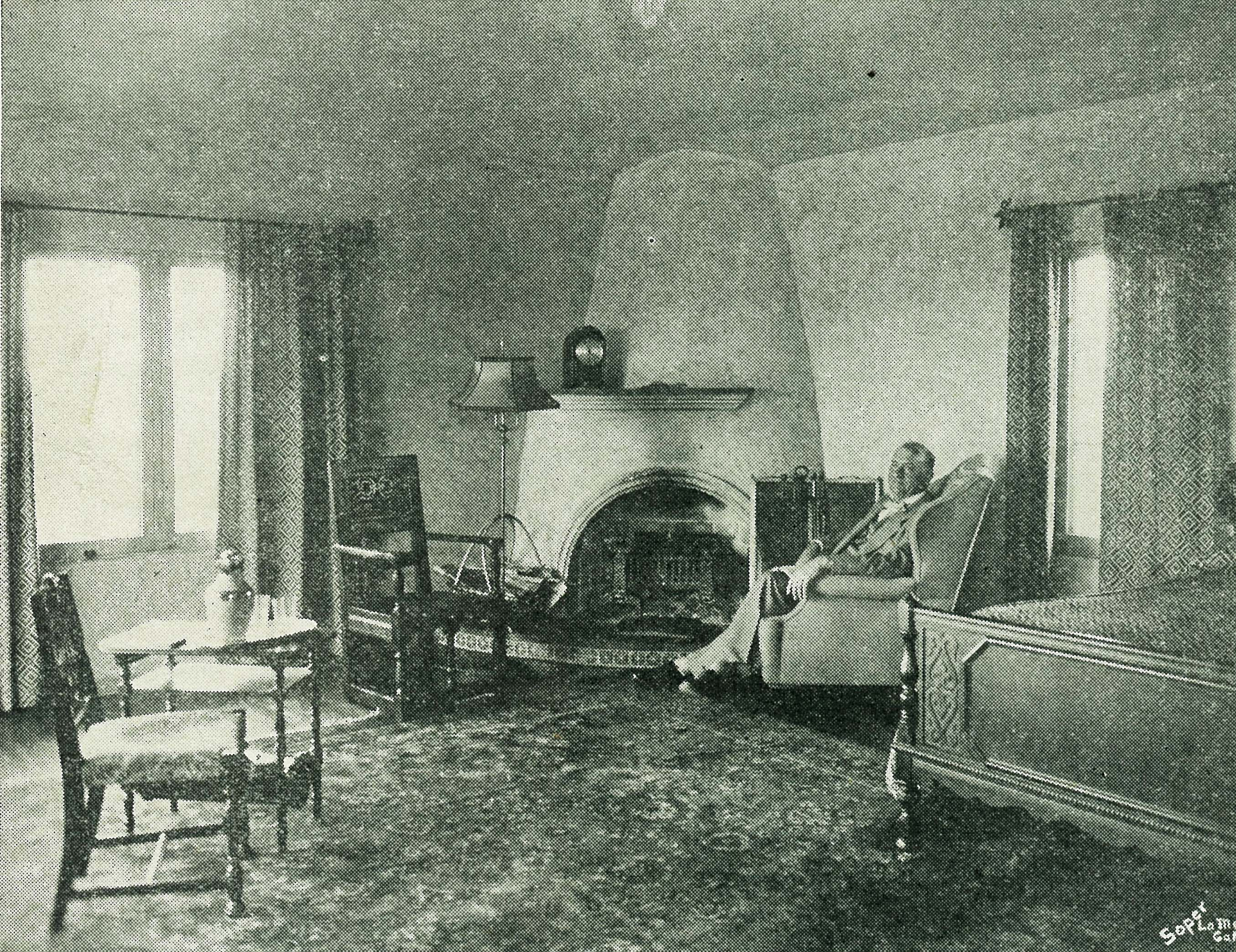 Picture taken from the July 25, 1931 Messenger of J.F. Rutherford ("Judge Rutherford") relaxing next to the fireplace in Beth Sarim, his estate in San Diego, California. The mansion was built in 1929 for the occupancy of the expected resurrection of Old Testament prophets ("princes"). At the time, Rutherford was president of the Watchtower Bible and Tract Society (Jehovah's Witnesses). Copyright for the Messenger was not renewed and picture is in the public domain. Picture was scanned from original magazine.